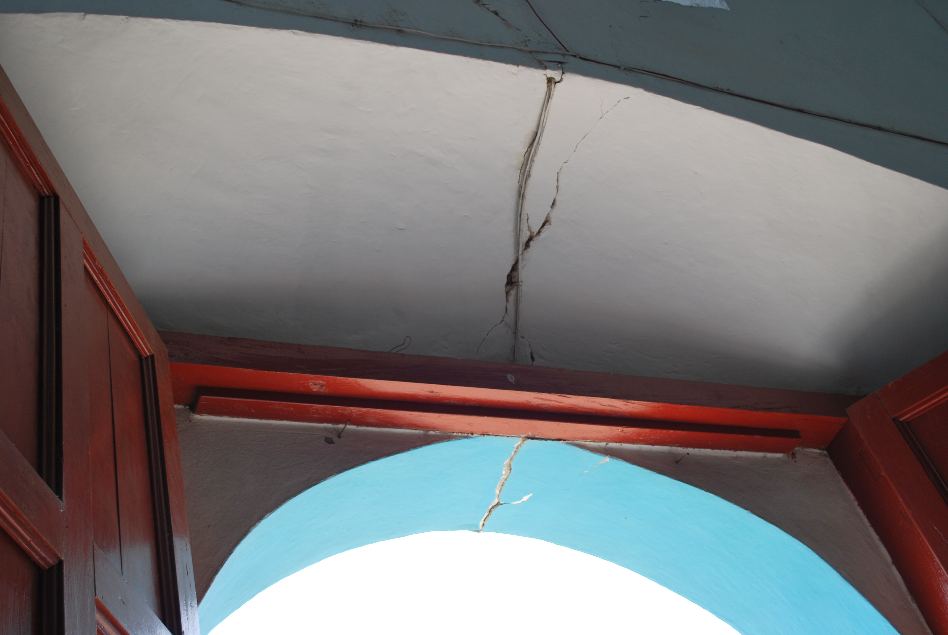 Cracks inside the Xochistlahuaca parish church from the 20 March 2012 earthquake in Ometepec